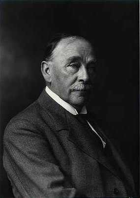 Danish architect Kristoffer Nyrop Varming (1865-1936)